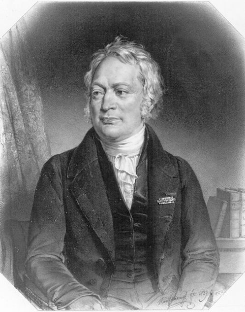 Christian Gottlob Eisenstuck (1773—1853), German advocate and politician